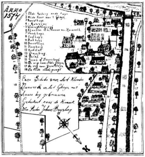 The monastery Nazareth in Geyne